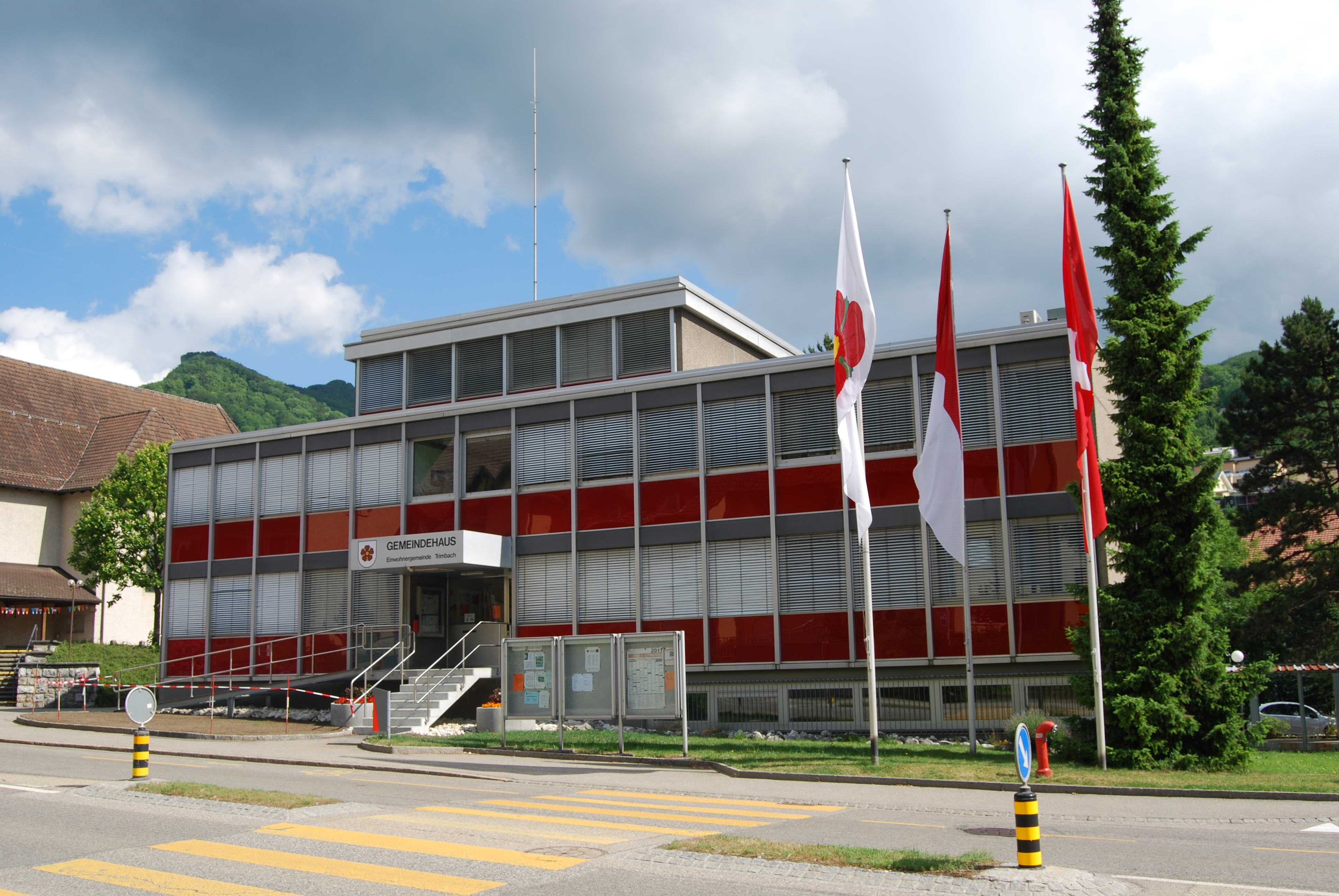 Municipal administration of Trimbach, canton of Solothurn, Switzerland